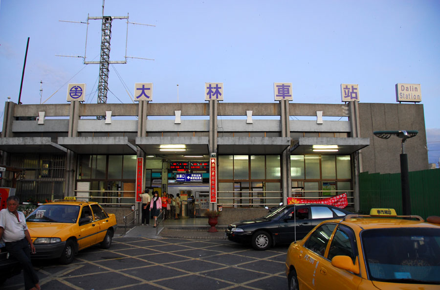 DaLin Station is a local train station of Taiwan's Western main rail line. It's the main station of DaLin Town, ChiaYi County.